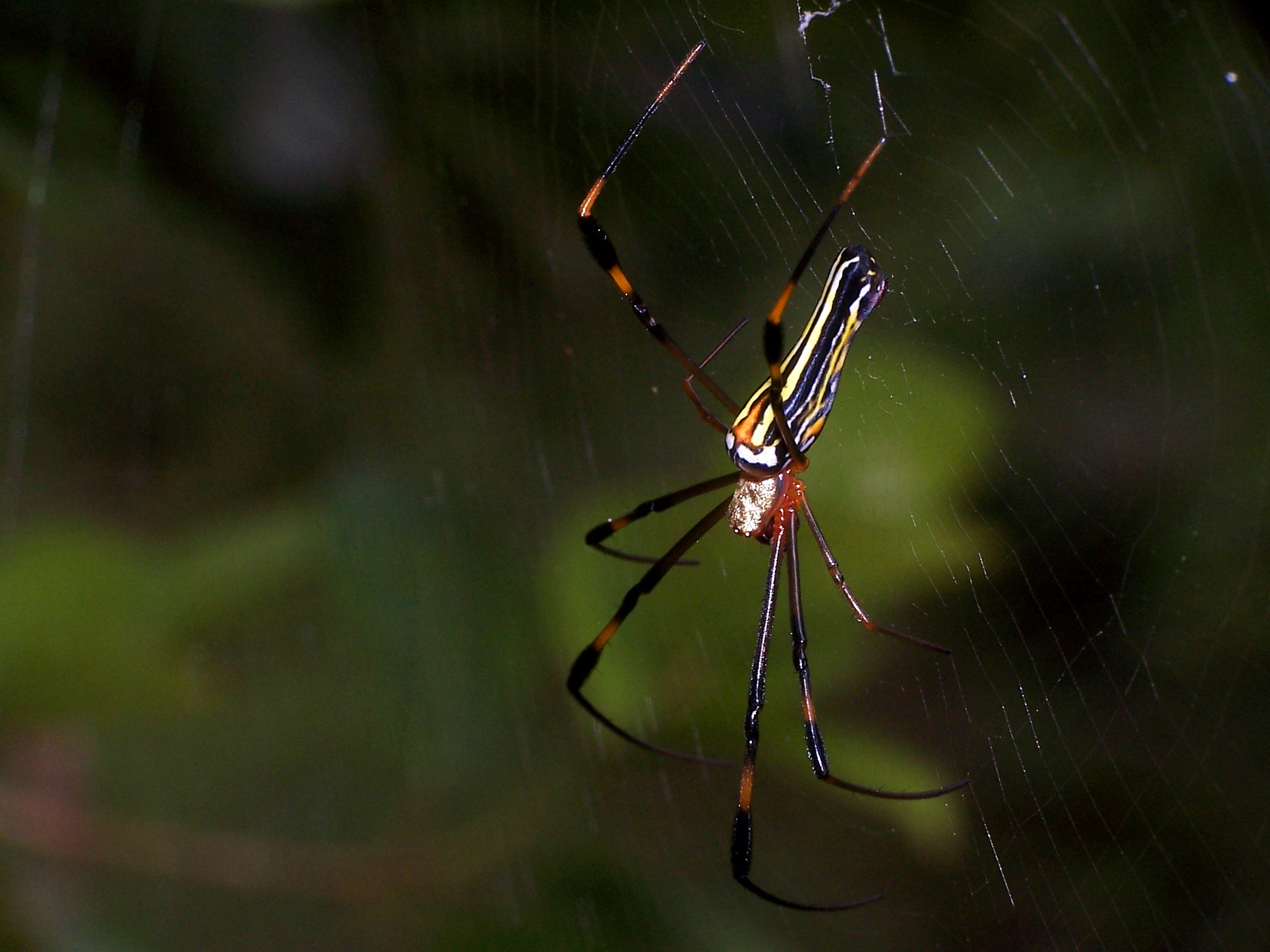 Saw this flower-like friend again at forest area.